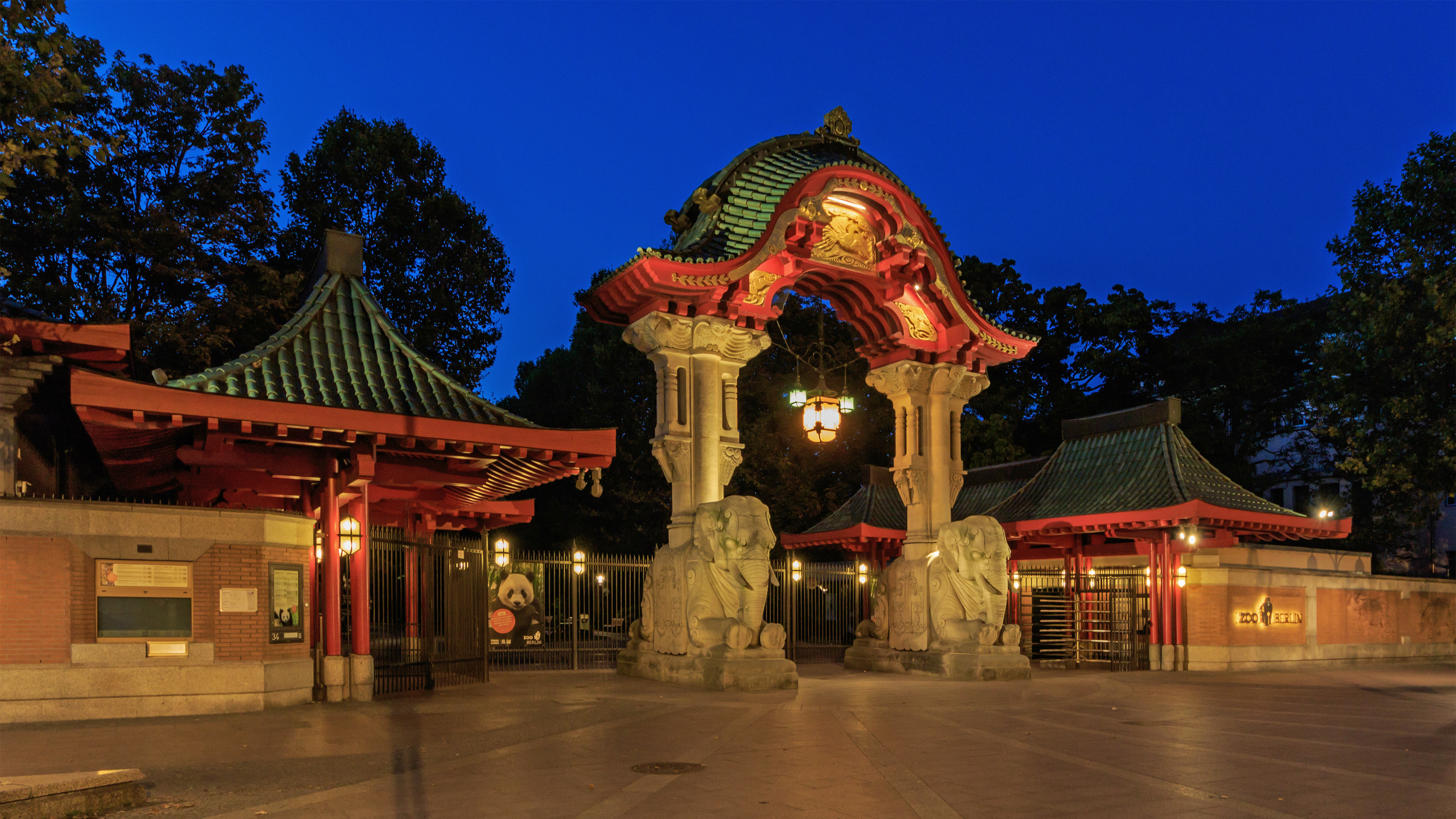 Elephant Gate to the Zoo in Berlin (Germany)